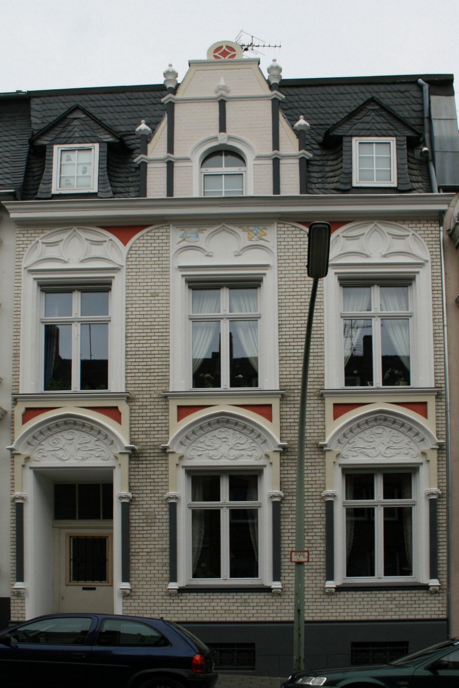 Cultural heritage monument No. B 015 in Mönchengladbach